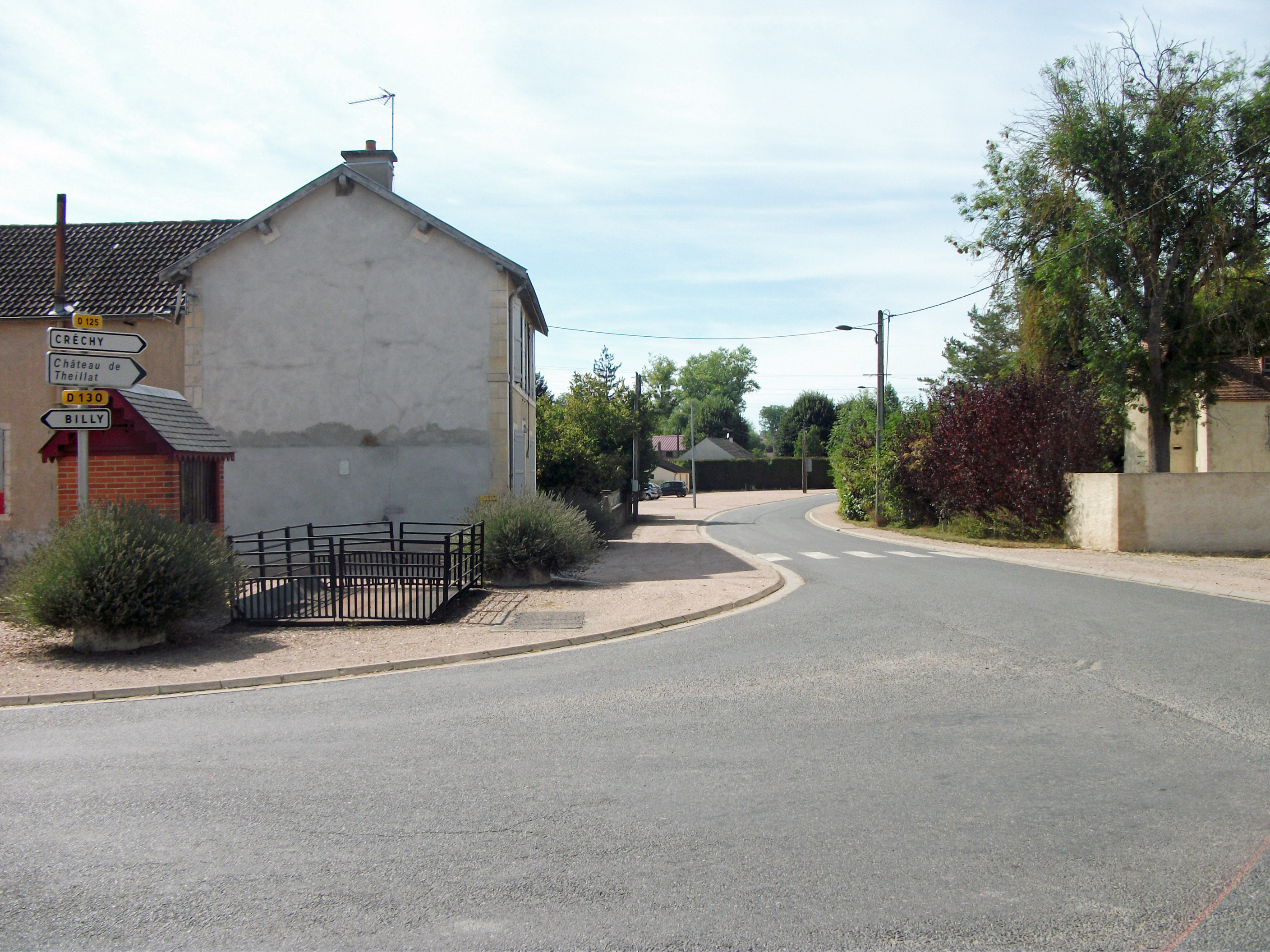 Departmental road 125 towards Chéchy, in Sanssat, Allier, Auvergne-Rhône-Alpes, France [11753]